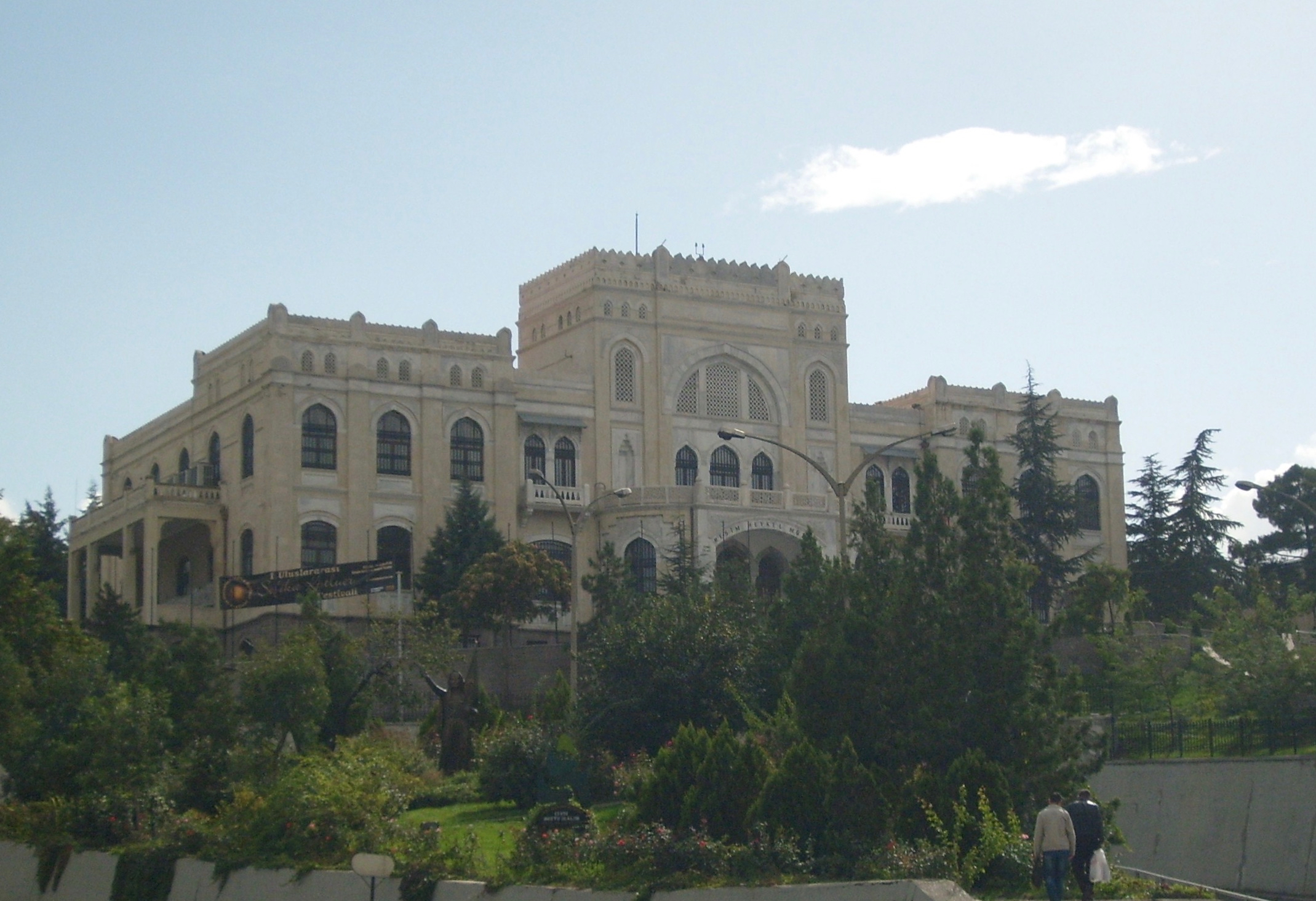 State Art and Sculpture Museum, Ankara.